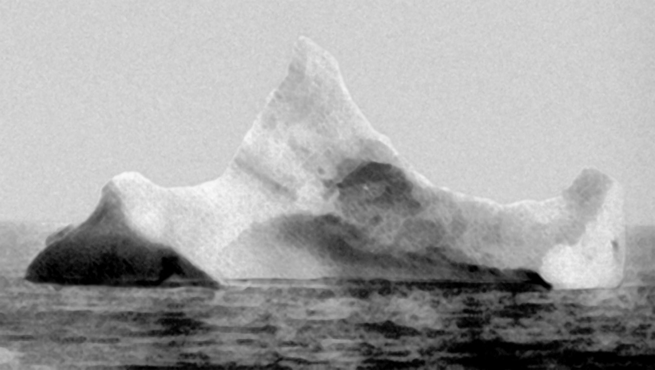 The iceberg suspected of having sunk the RMS Titanic. This iceberg was photographed by the chief steward of the liner Prinz Adalbert on the morning of April 15, 1912, just a few miles south of where the “Titanic” went down. The steward hadn't yet heard about the Titanic. What caught his attention was the smear of red paint along the base of the berg, indication that it had collided with a ship sometime in the previous twelve hours. This photo and information was taken from "UNSINKABLE" The Full Story of RMS Titanic written by Daniel Allen Butler, Stackpole Books 1998. Other accounts indicated that there were several icebergs in the vicinity where the TITANIC collided.